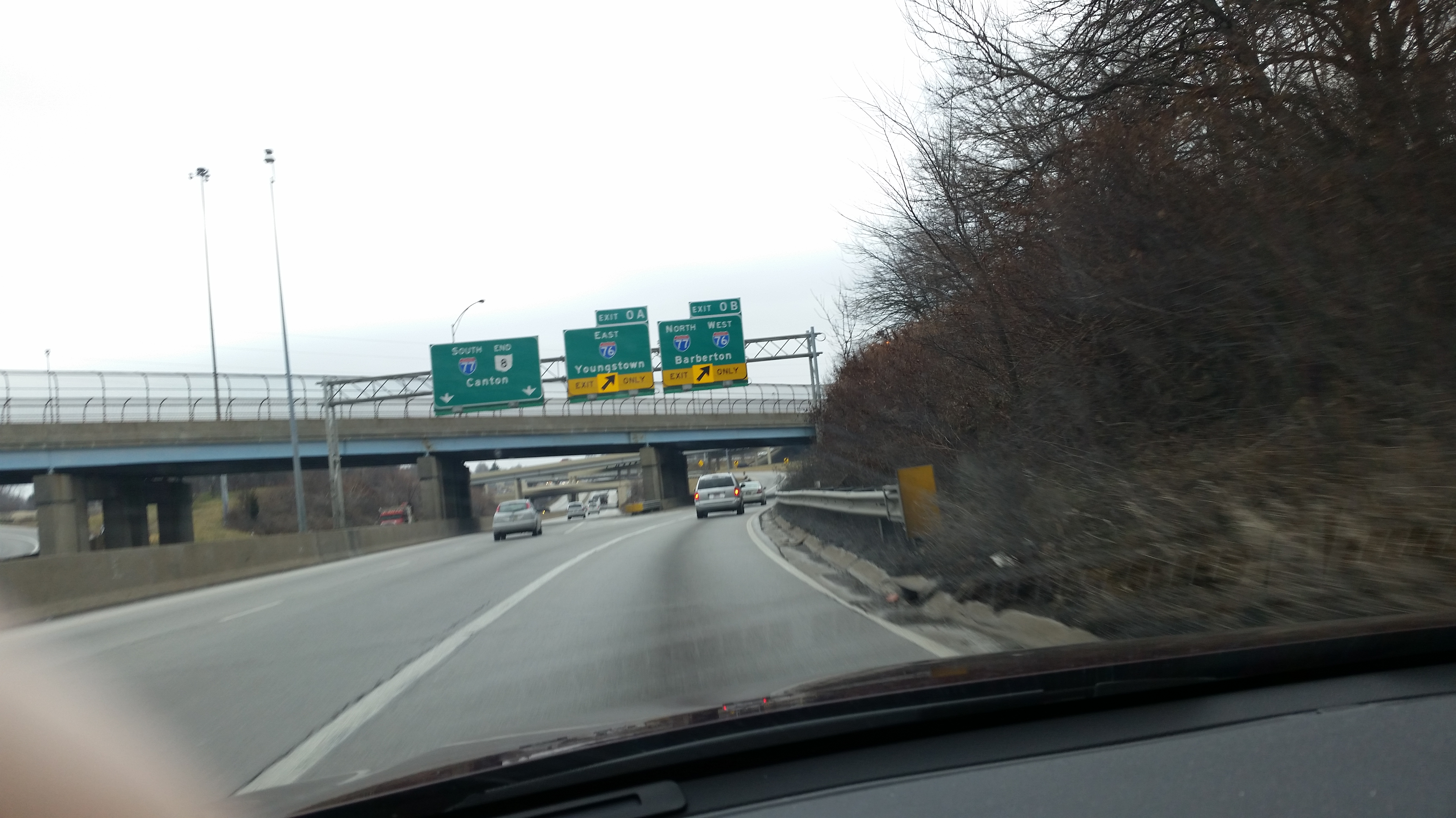 Picture showing the new exit numbering for the south end of Ohio State Route 8